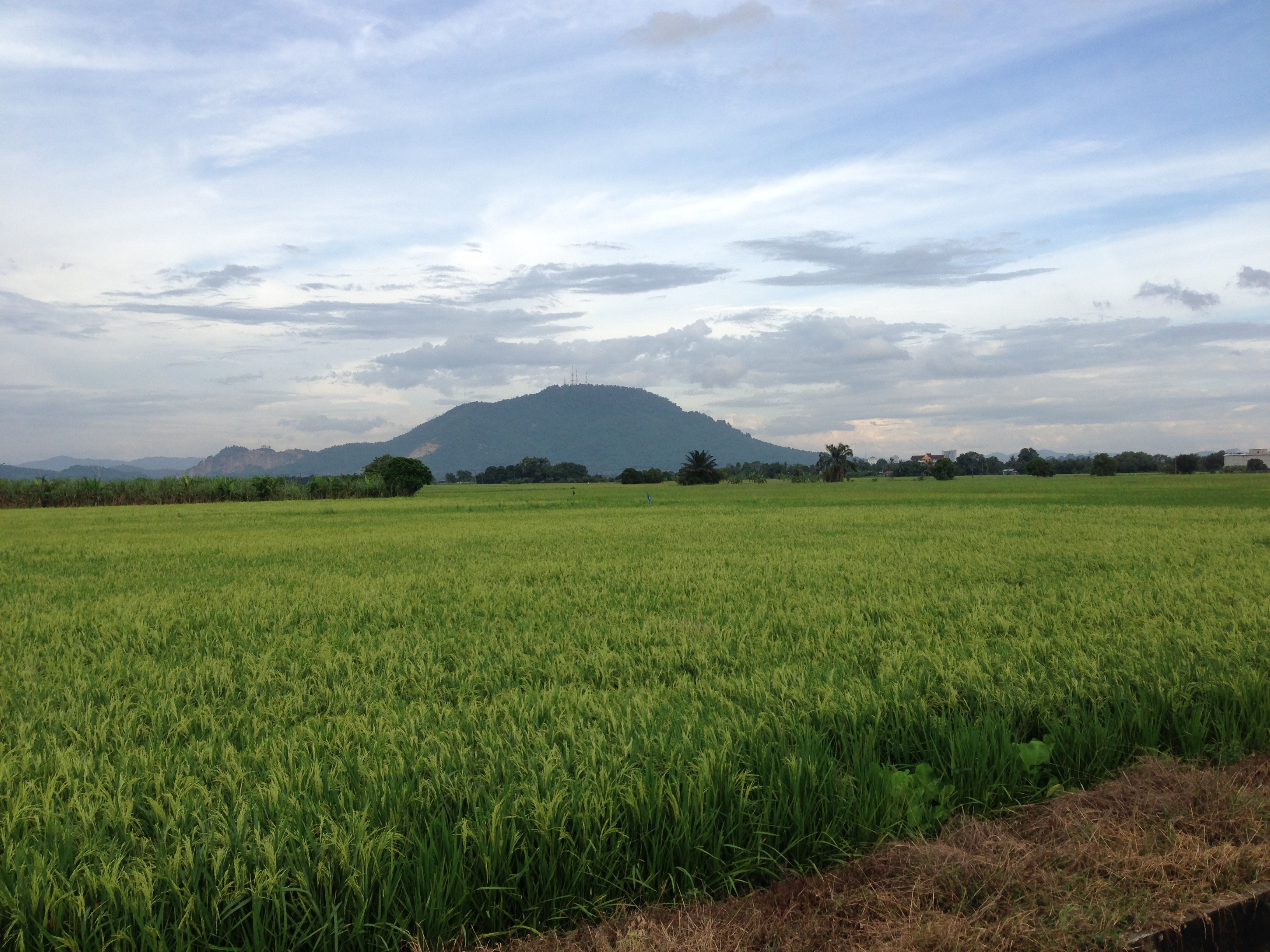 Bukit Mertajam hill view from paddy field in Permatang Nibong